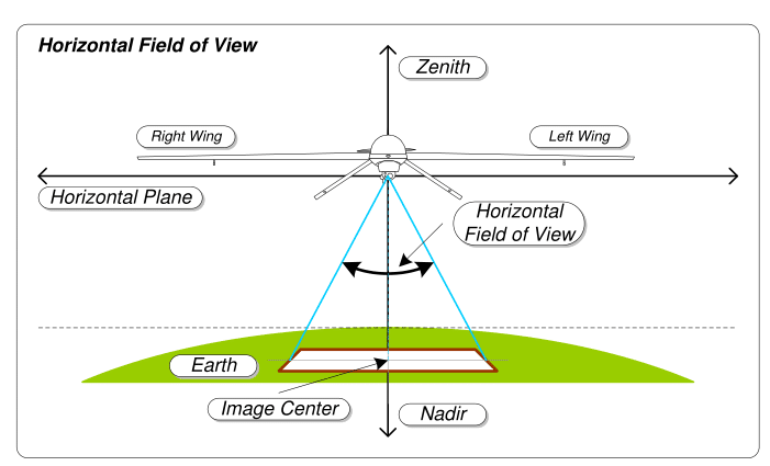 Horizontal Field of View